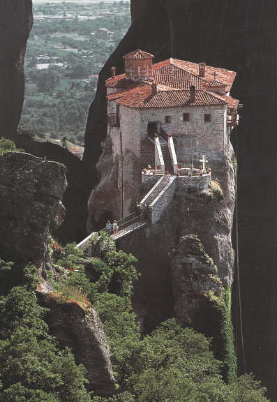 Meteora Rousano